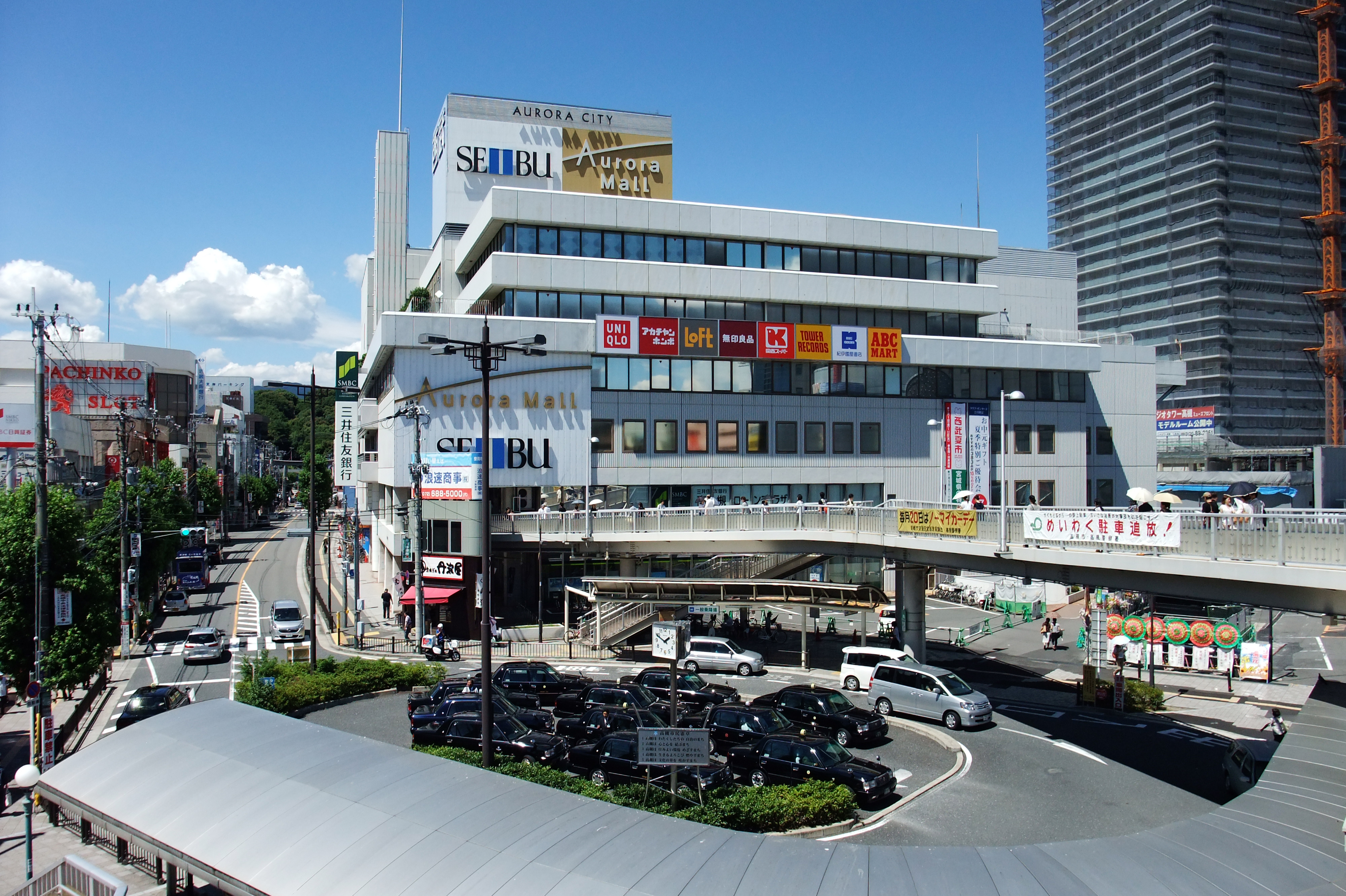 Takatsuki Seibu in Takatsuki, Osaka prefecture, Japan